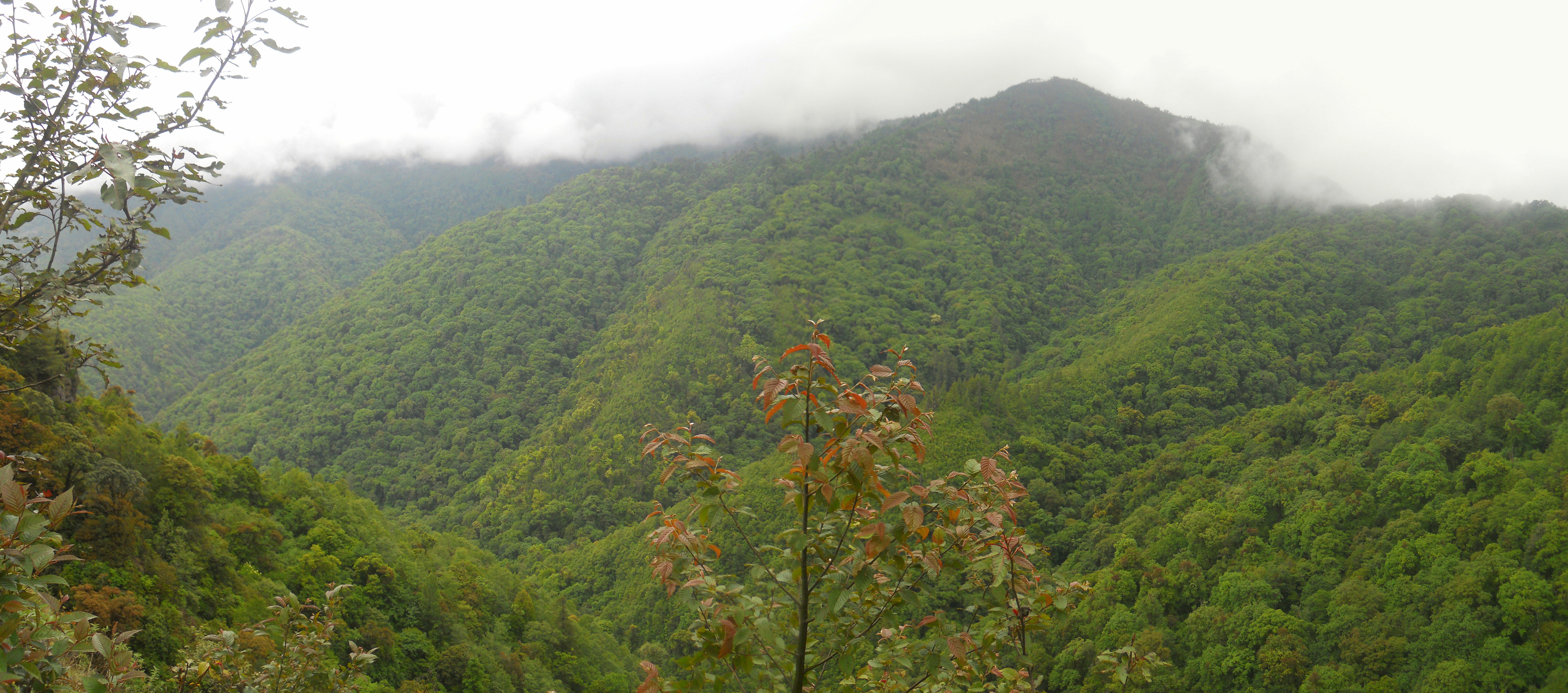 View the forest canopy from a place between Lama camp and eaglenest pass, Eaglenest Wildlife Sanctuary, Arunachal Pradesh, India